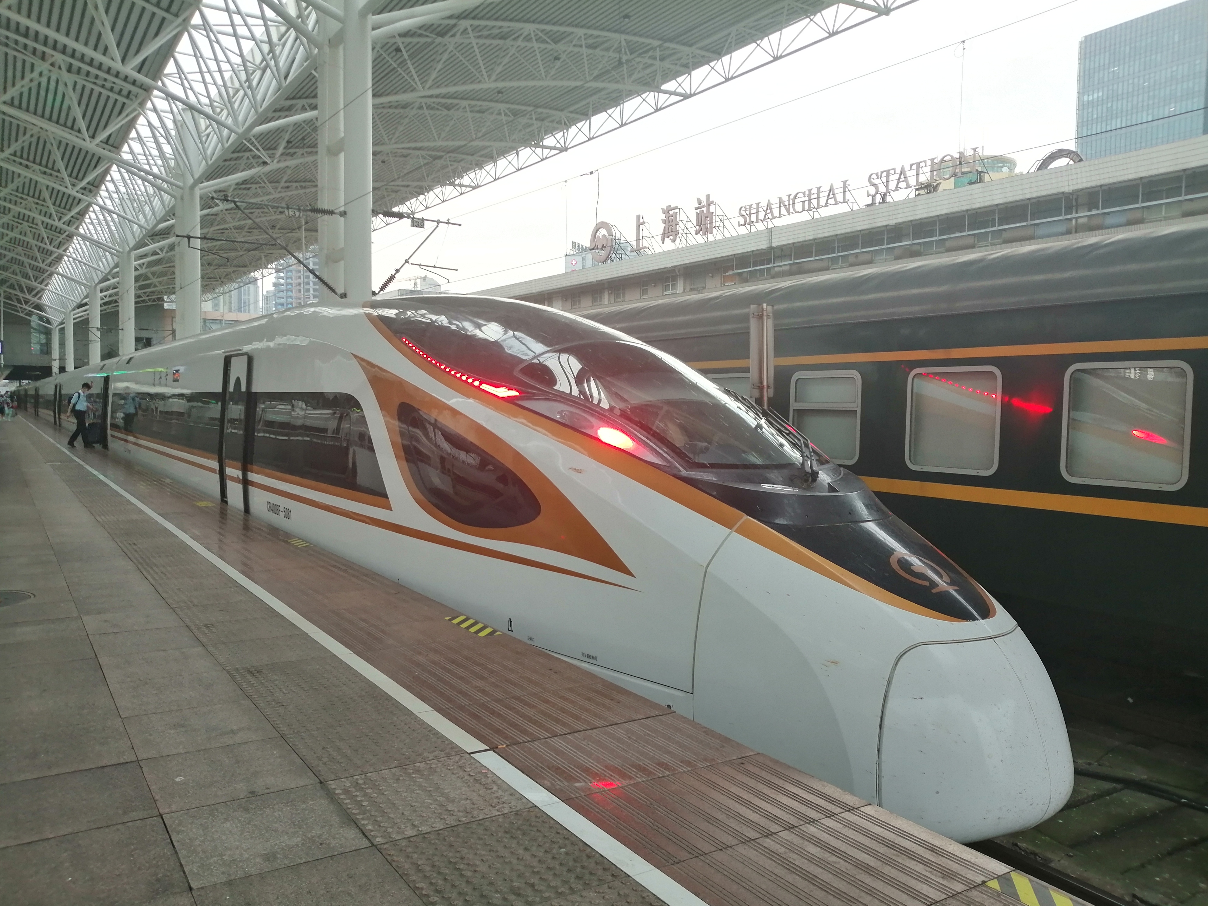 The train is served as G7272, which bound for Anqing.